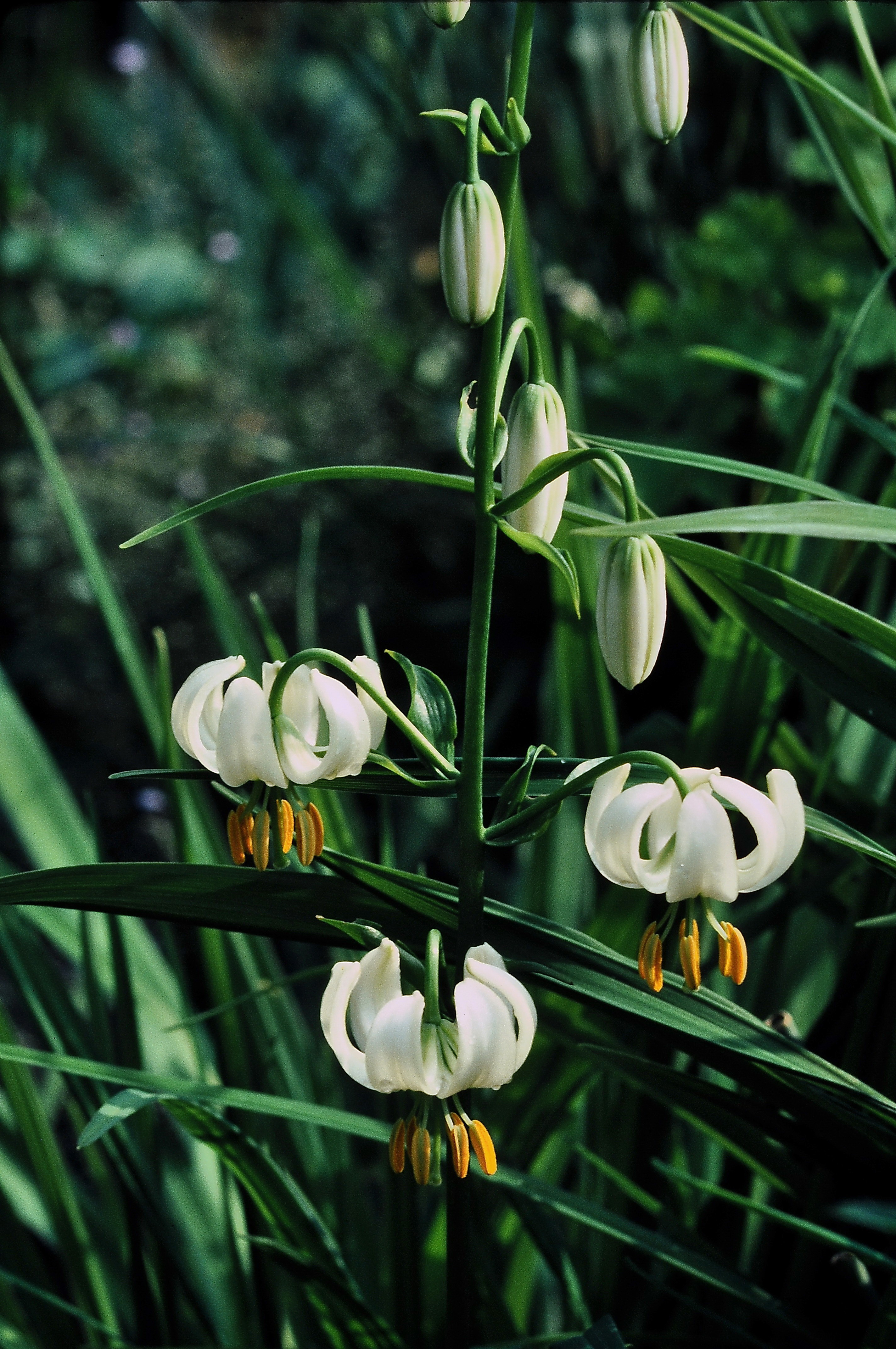 White Turk's cap lily